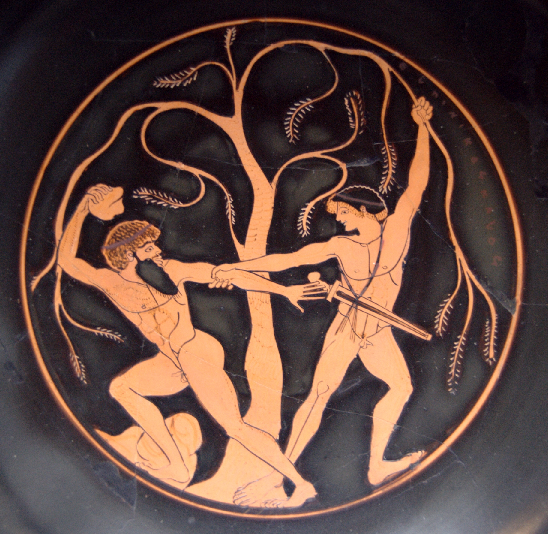 Theseus and Sinis. Tondo of an Attic red-figure kylix, 490–480 BC.